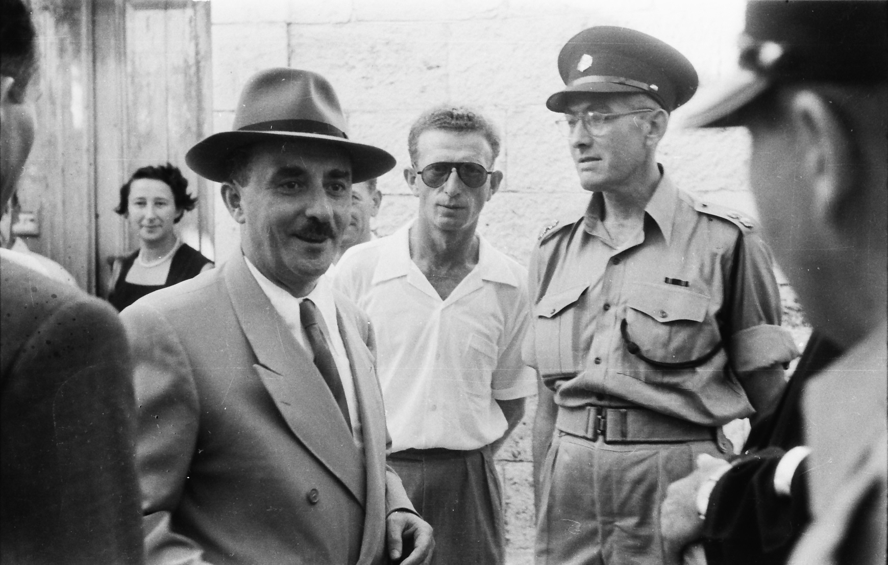 P.M Moshe Sharet visit in Lod, People of Israel